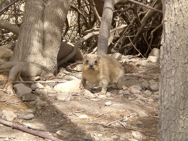 Hyrax in Ein Gedi's Nature Reserve, Israel